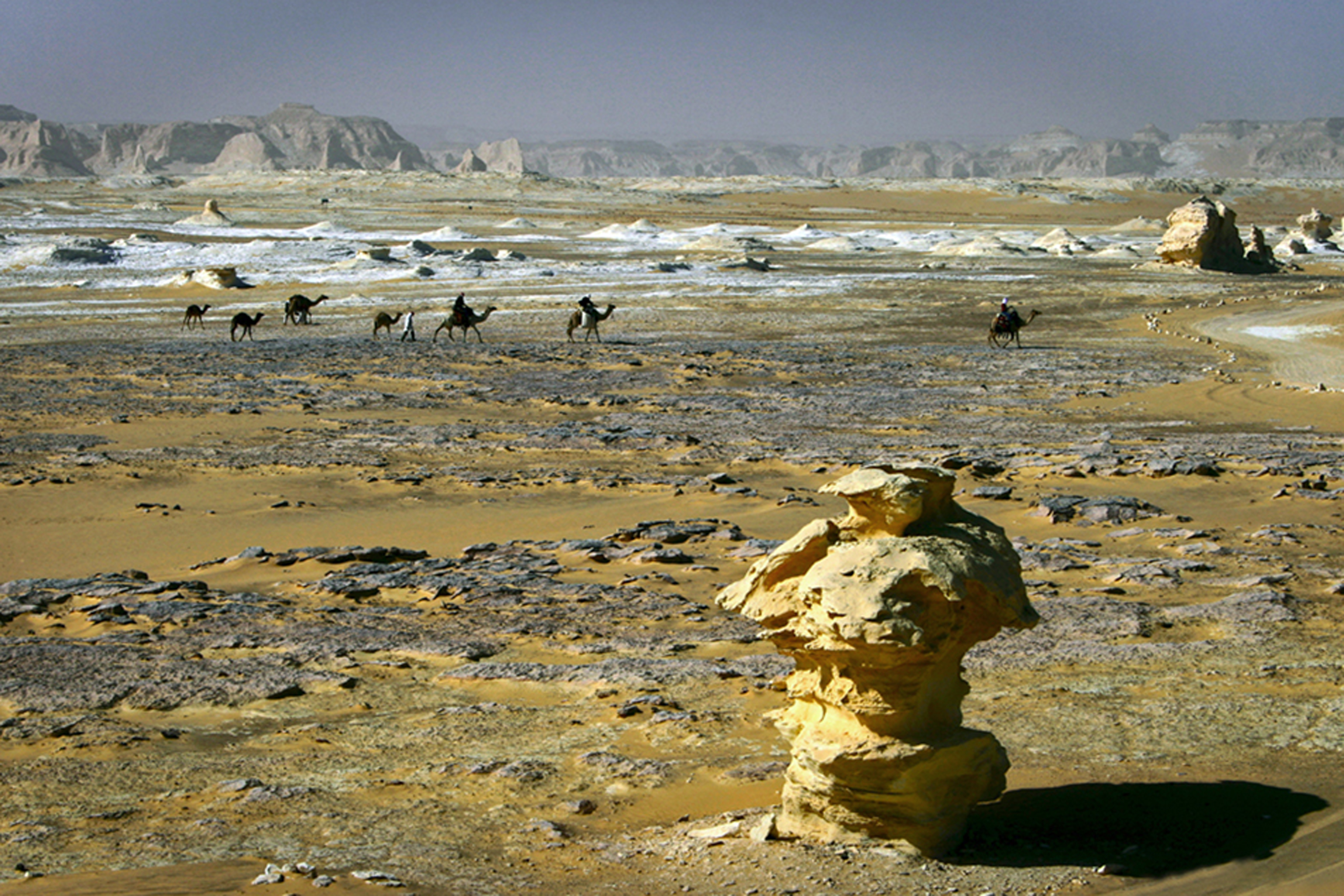 Caravan in the White Desert, near Farafra, Sahara, Egypt.